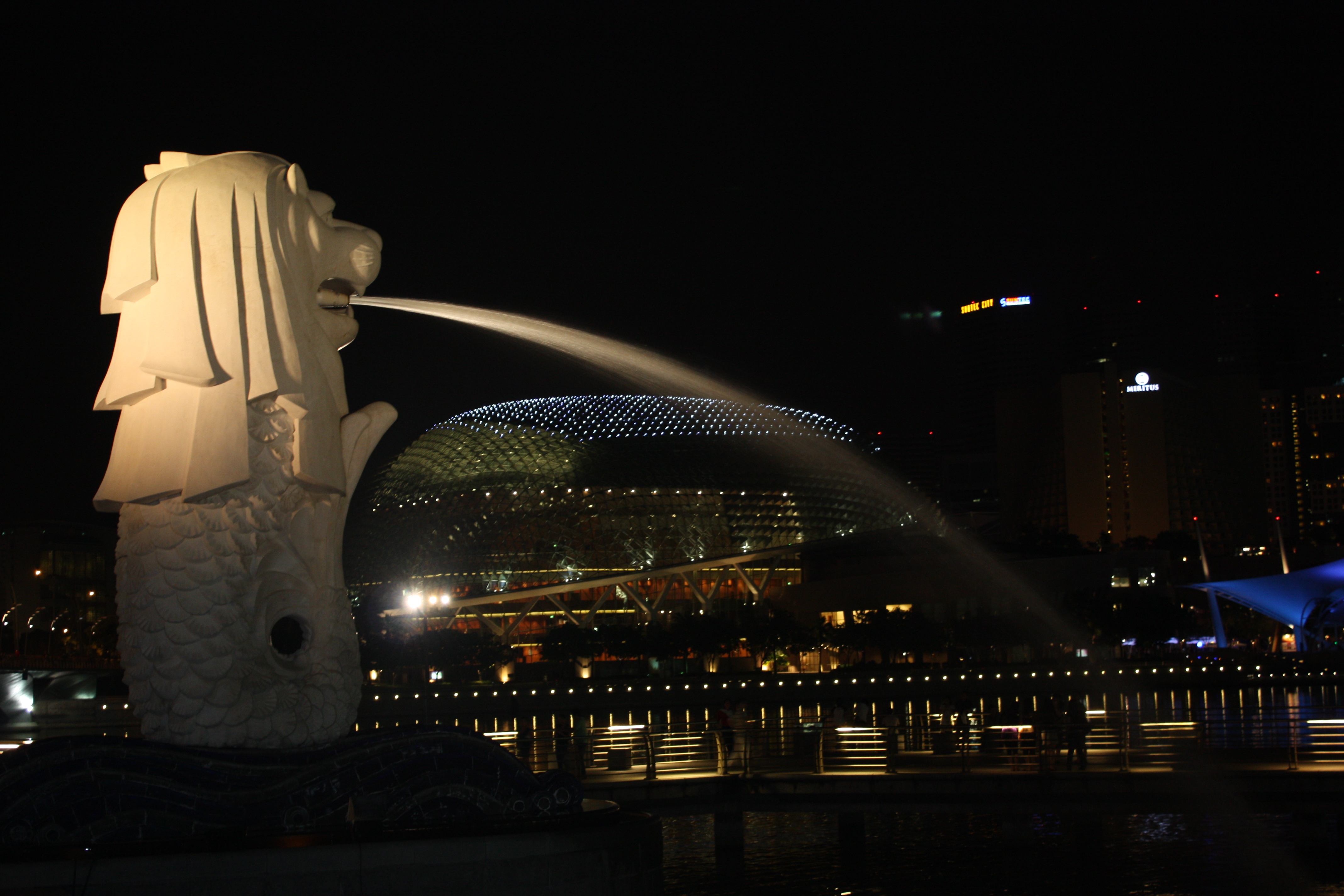 The statue of the Merlion at the Merlion Park near the Central Business District of Singapore. The photo was taken by Wolfgang Holzem /